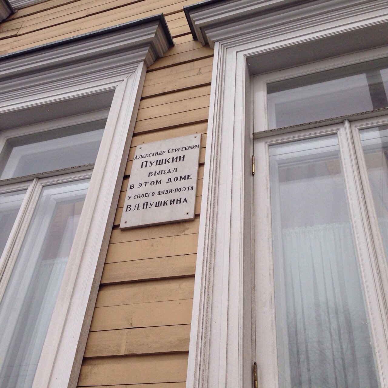 Commemorative plaque at Vasiliy Lvovich Pushkin's House at Staraya Basmannaya Street in Moscow.